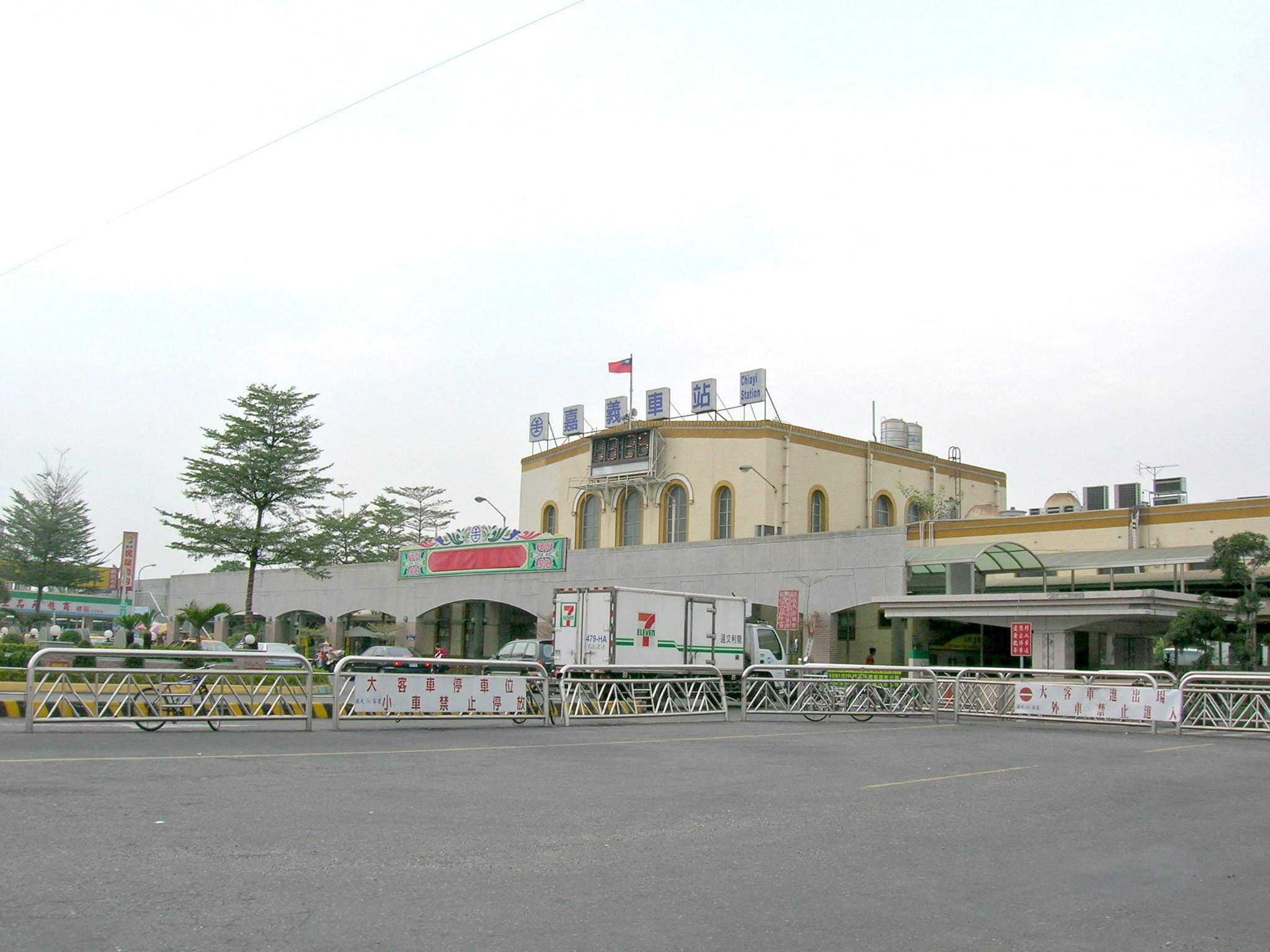 Chiayi Railway Station, Chiayi, Taiwan.